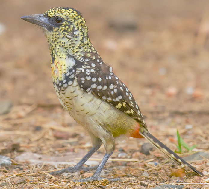 D'Arnaud's Barbet from Serengeti National Park, Tanzania